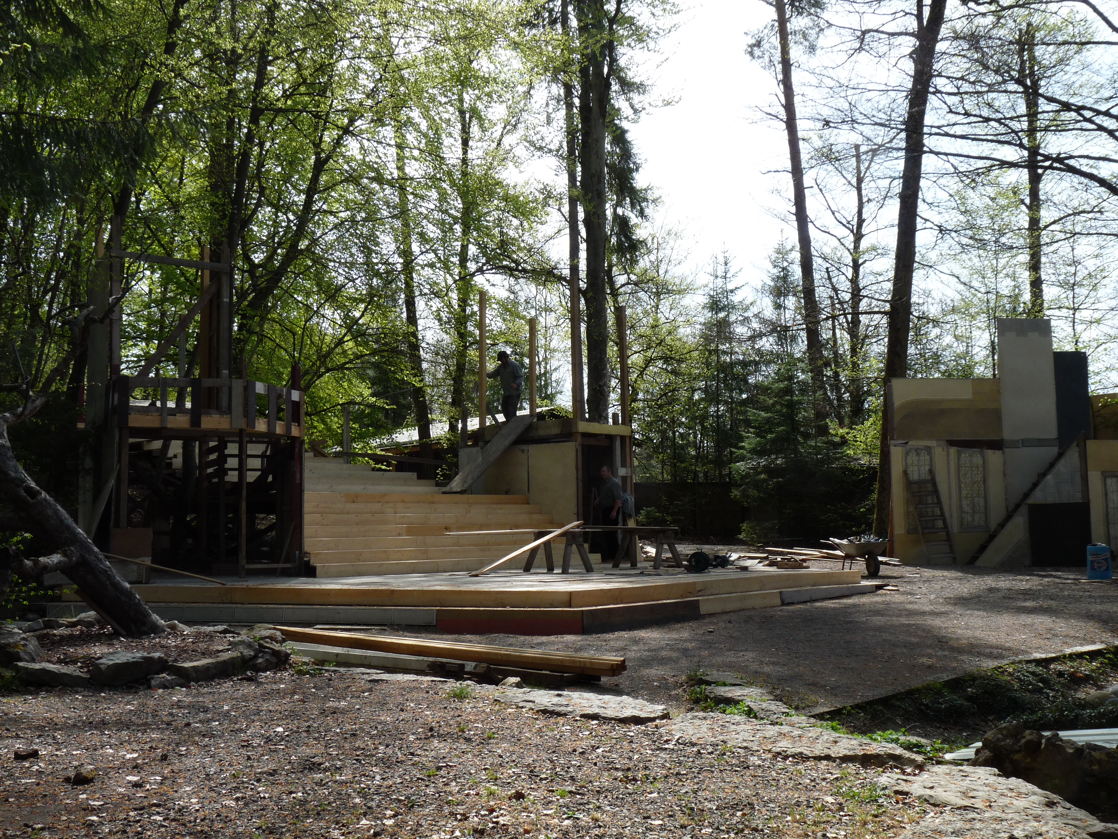 Waldbühne Sigmaringendorf - Set construction 2009